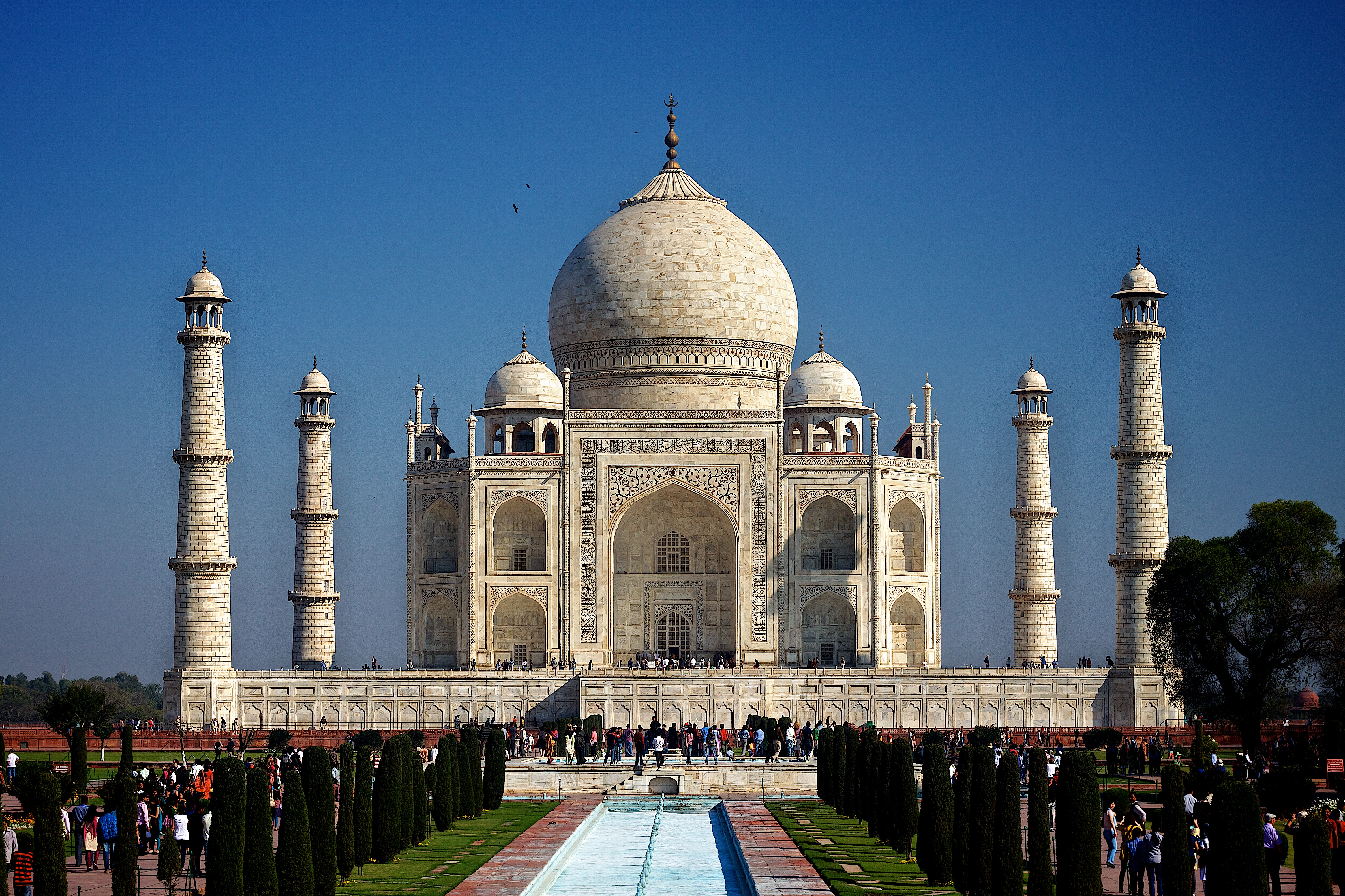 The inimitable, unforgetable, breath-taking architectural wonder that is the Taj Mahal...